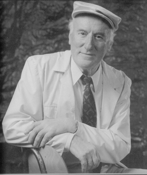 Photo of Radojko Nikolić Српски (ћирилица): Фотографија Радојка Николића